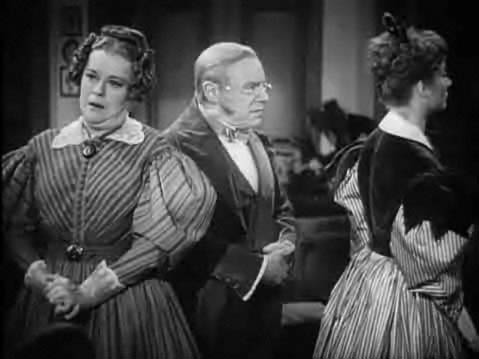 Cropped screenshot of Mary Boland, Edmund Gwenn and Greer Garson from the trailer for the film Pride and Prejudice